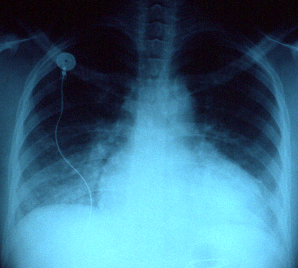 This 28 year old woman presented with congestive heart failure secondary to her chronic hypertension, or high blood pressure. The enlarged cardiac silhouette on this AP x-ray is due to congestive heart failure due to the effects of chronic high blood pressure on the left ventricle. The heart then becomes enlarged, and fluid accumulates in the lungs known as pulmonary congestion.